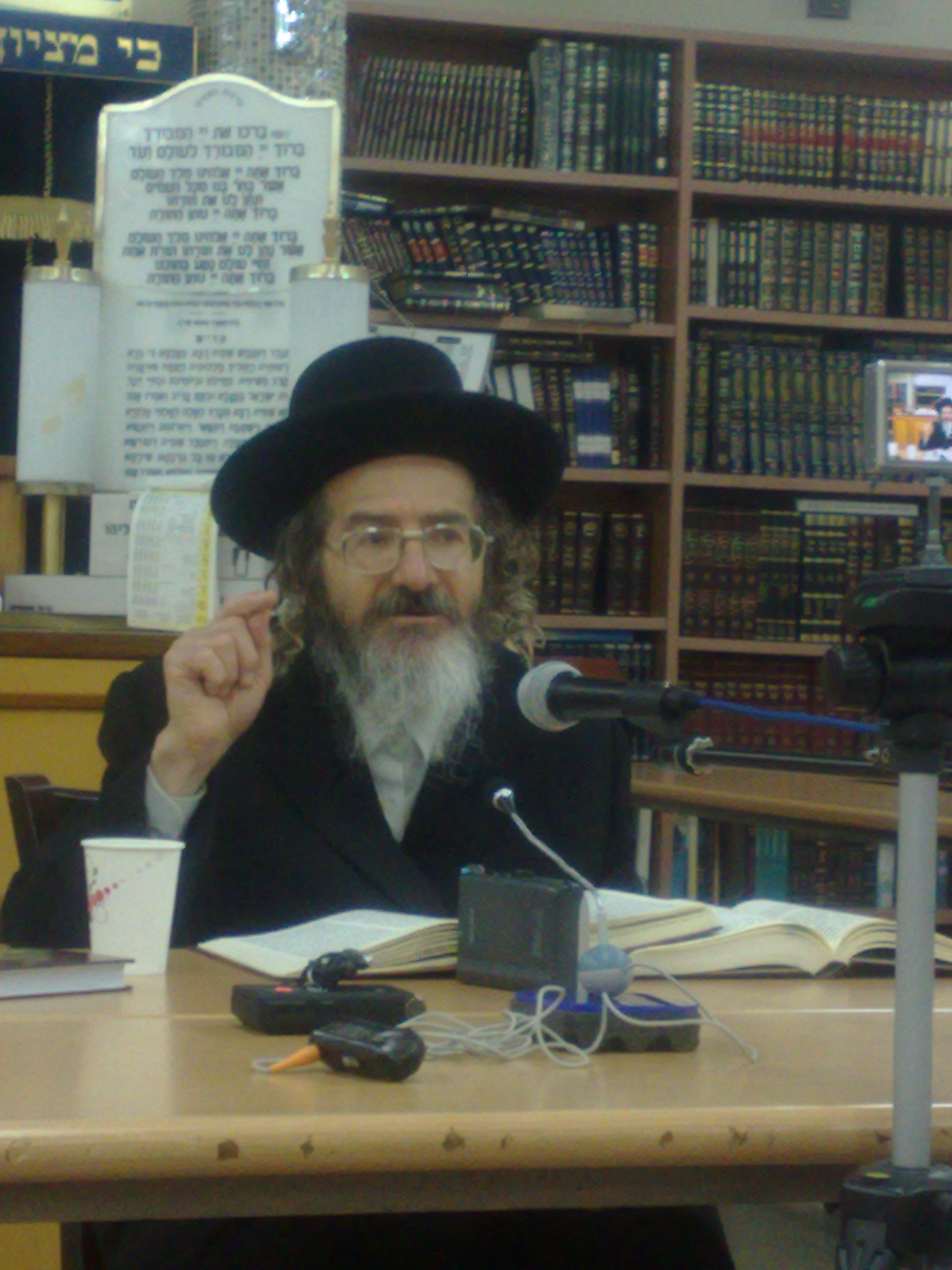 Rabbi Israel Meir Brenner from breslov Jerusalem